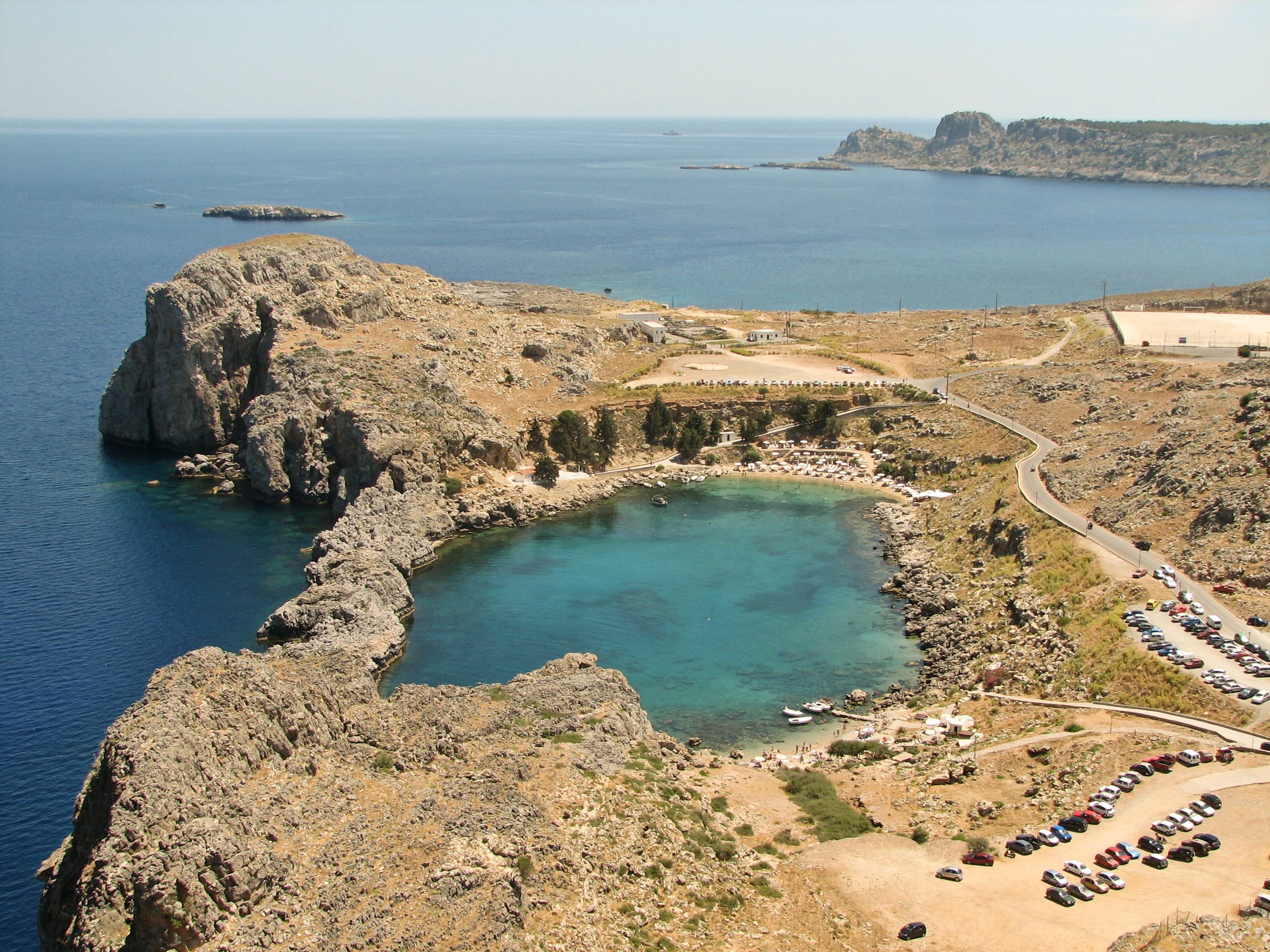 Bay near Lindos, Rhodes, Greece